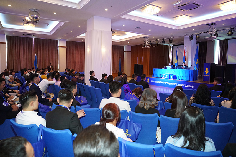 Зон Олны нам